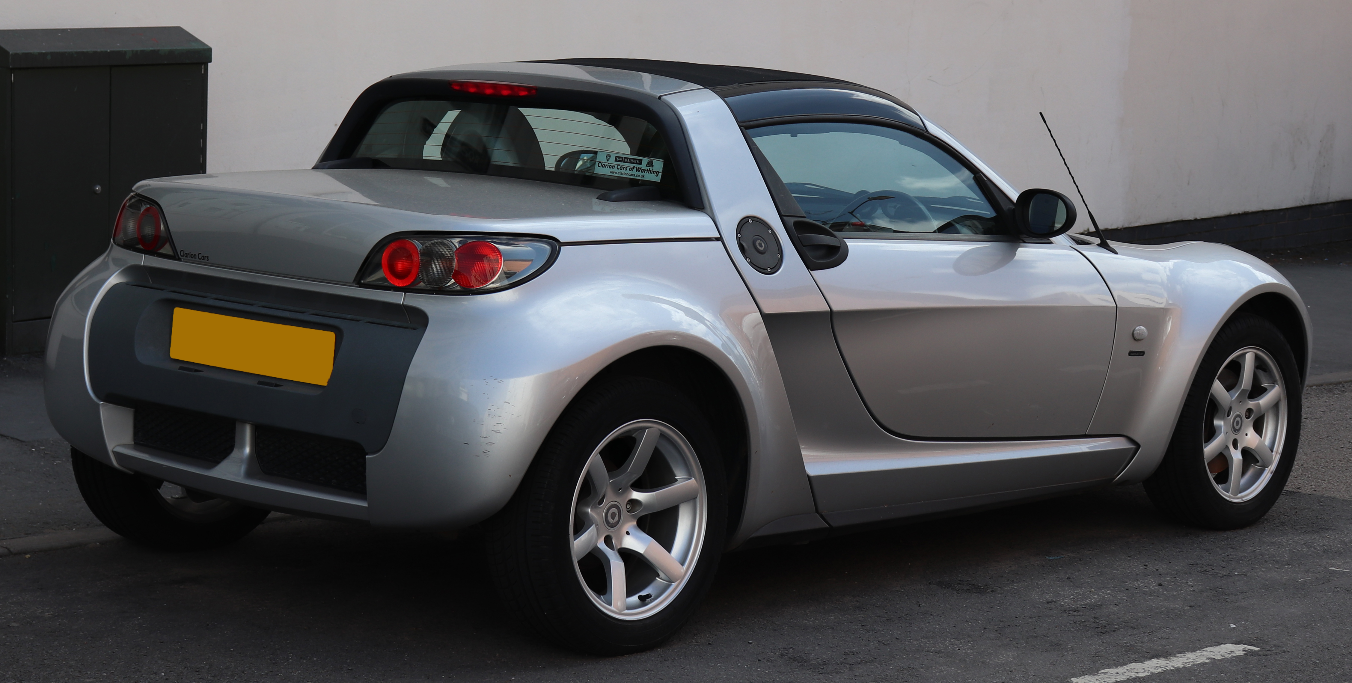 2004 Smart Roadster Speedsilver Automatic 700cc Rear Taken in Leamington Spa